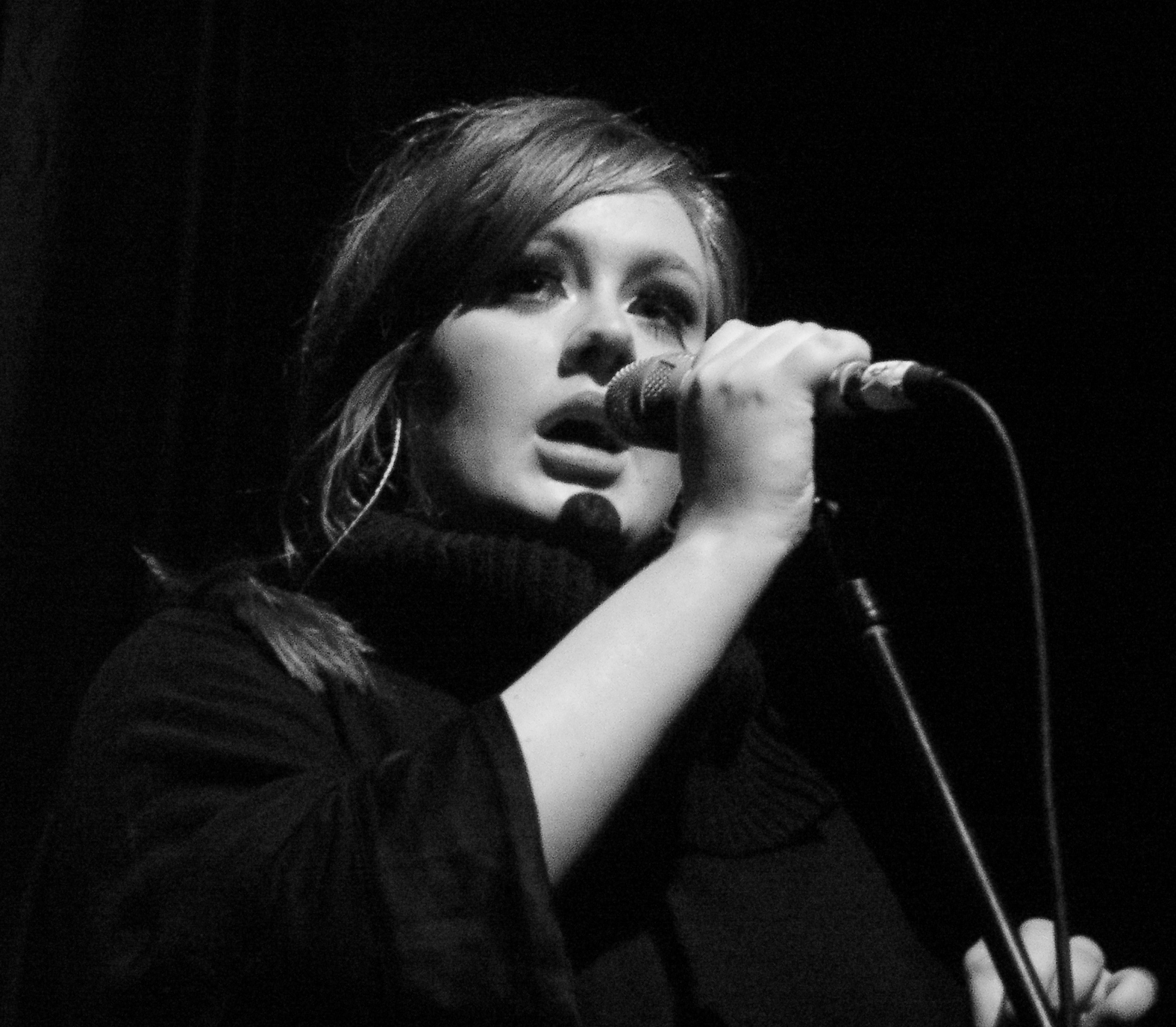 Adele on a concert in January 2009.